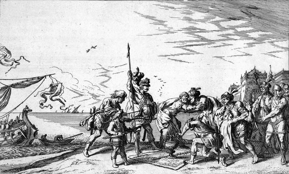 Johann Wilhelm Baur 1659 Aeneus meets with Anius Illustration from Ovid, Metamorphoses 7.626